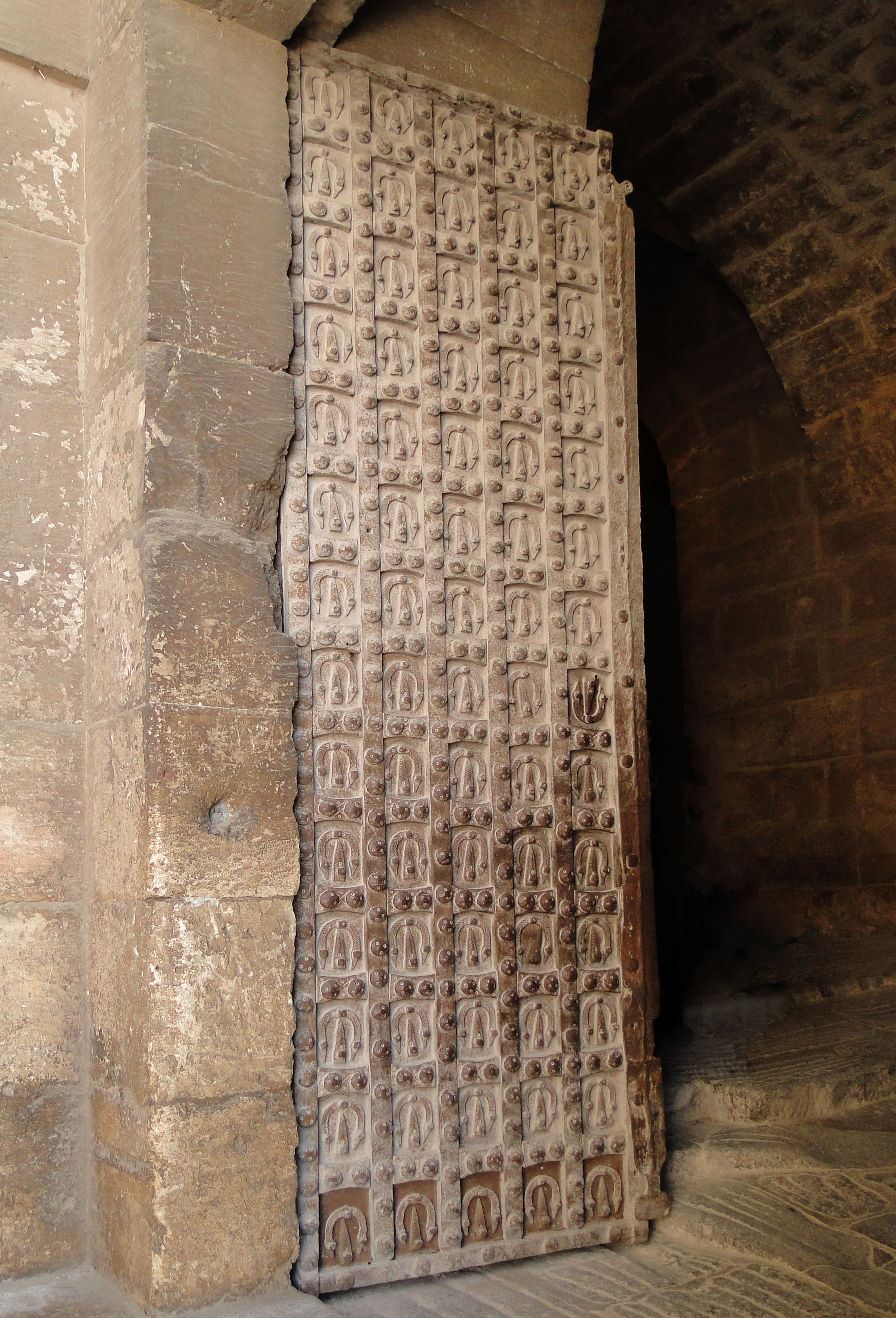 Main door of the Aleppo Citadel, Syria